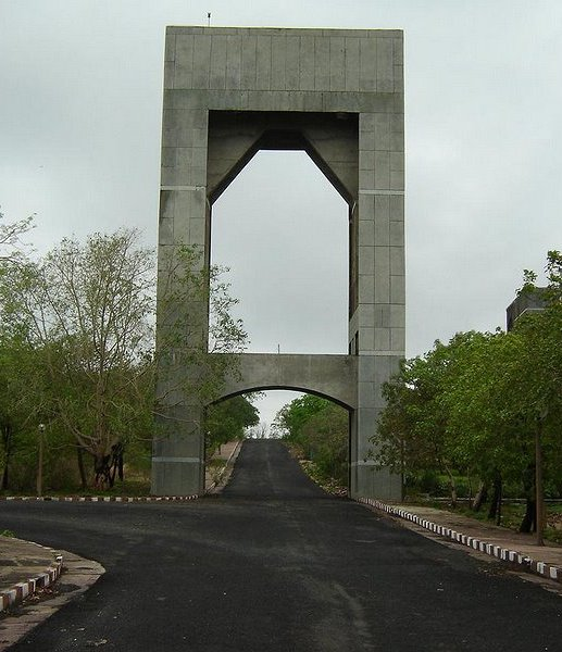 This is the most notable architecture feature at IIFM. this arc is the highest structure in the IIFM campus and is actually a water tank. The storage structure is at the top